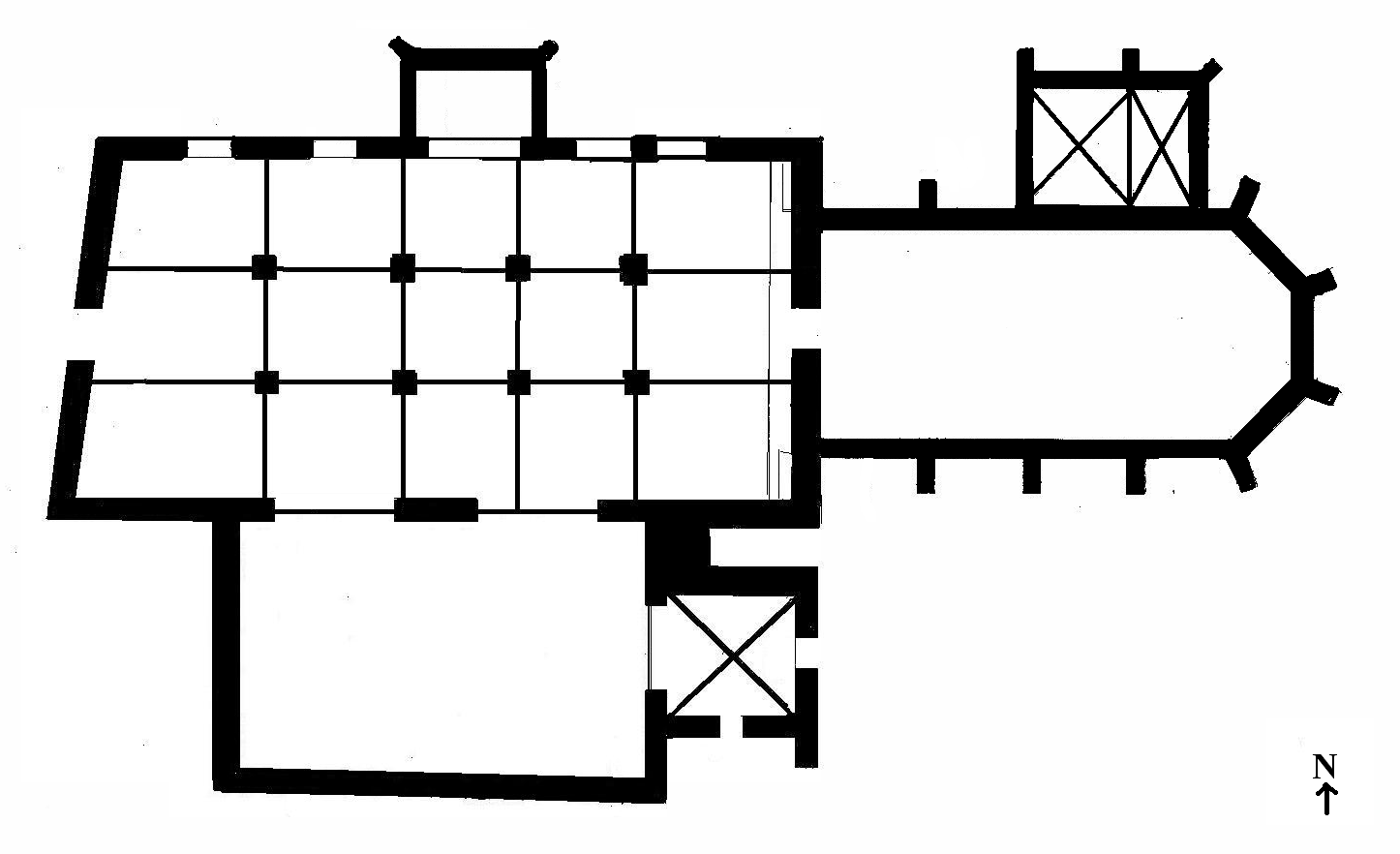 r